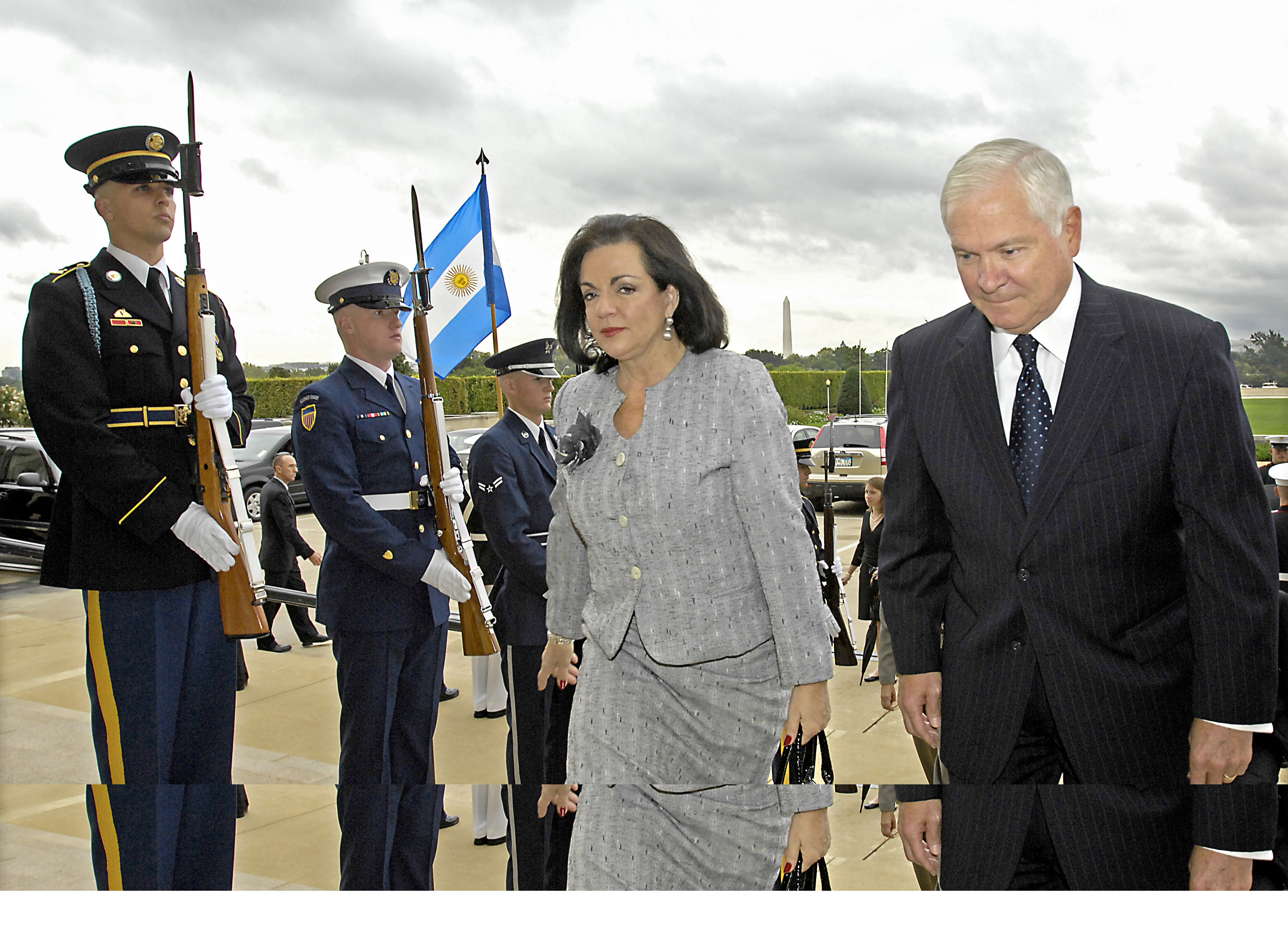 Secretary of Defense Robert M. Gates escorts Argentine Minister of Defense Nilda Garre through an honor cordon and into the Pentagon on Sept. 8, 2009. Gates and Garre will meet to discuss a broad range of security issues, particularly those pertaining to the Western hemisphere.